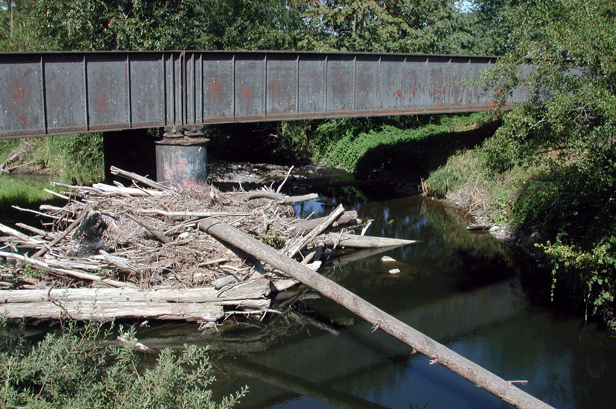 Lower Abiqua Creek. View is downstream (west) from a bridge carrying Oregon Route 214 over the creek between Mount Angel and Silverton, Oregon, in the United States. The bridge in the background carries the Willamette Valley Railway.